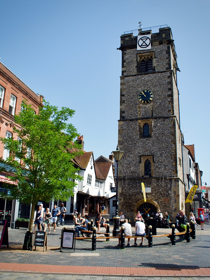 Photograph of the St Albans Clocktower shortly after an Extinction Rebellion (XR) banner was hung from the top. The banner was to mark the forthcoming Council vote on declaring a climate emergency. The photo also shows the square as it is used by locals on a typical summer Saturday (market day).